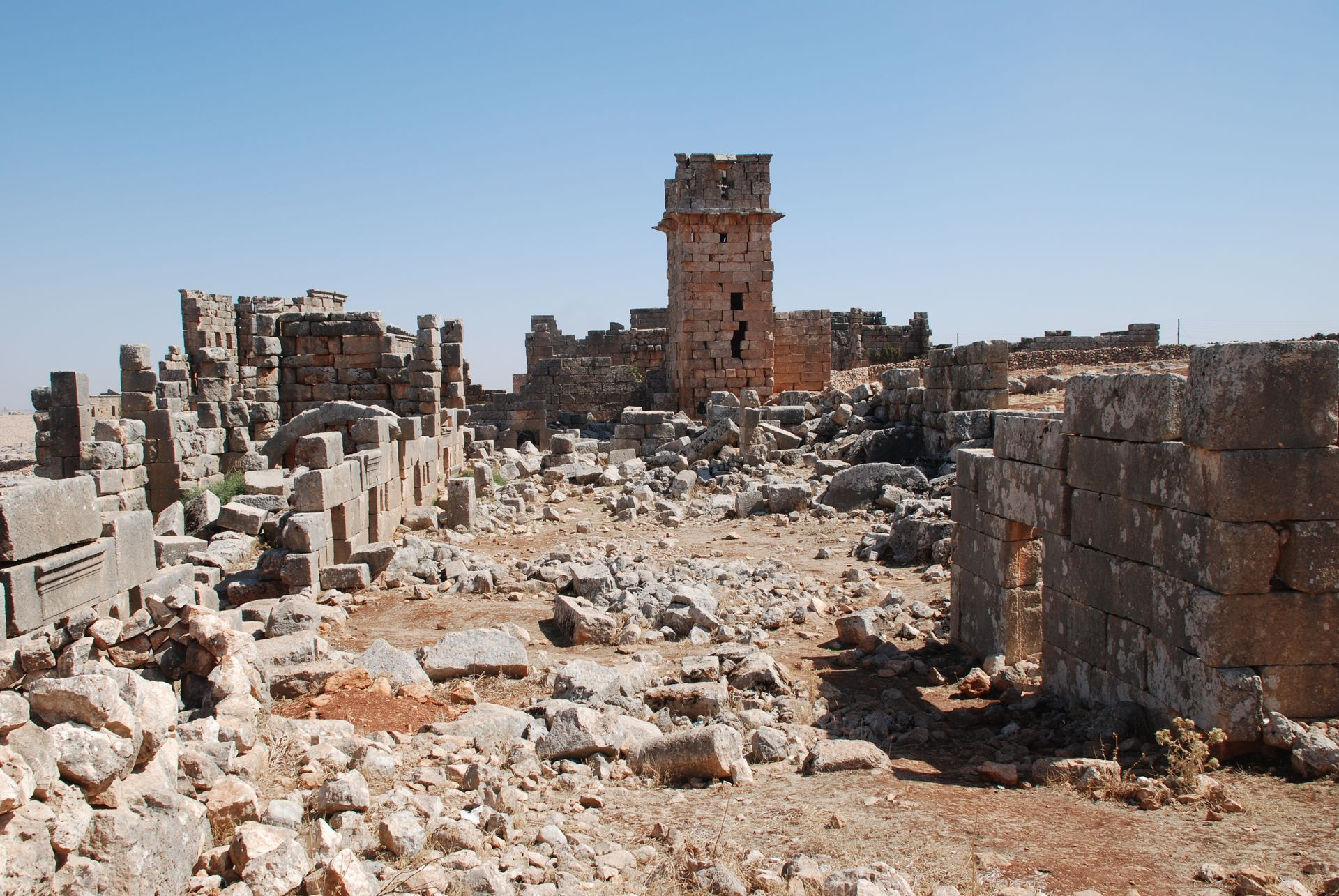 Jerada, dead city in Syria